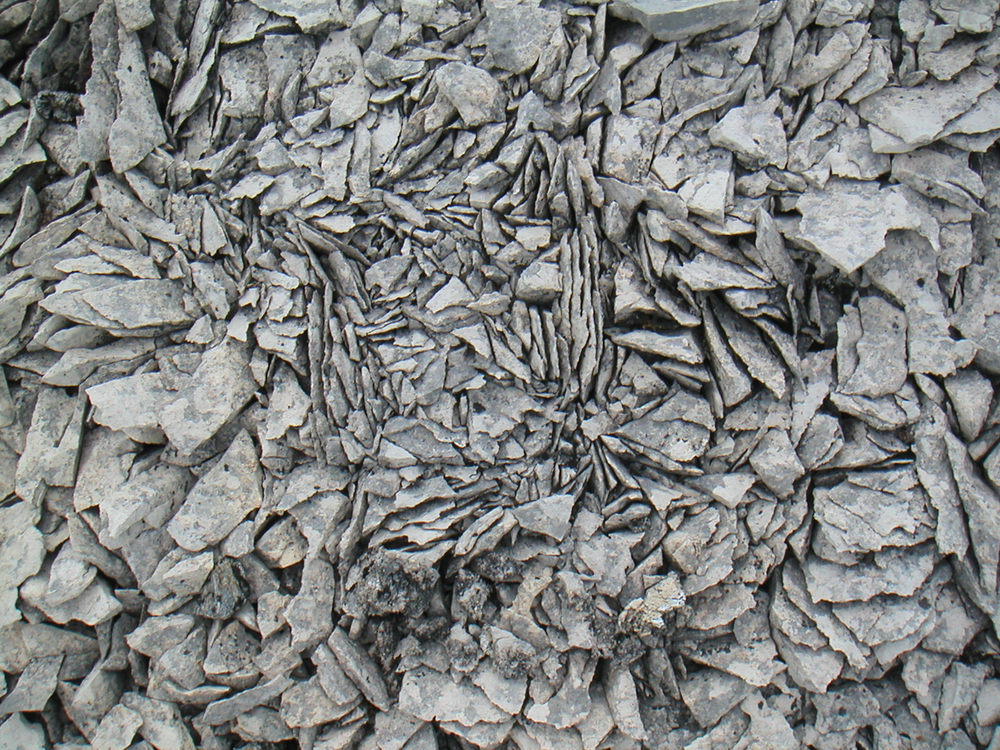 stone rose, Spitsbergen